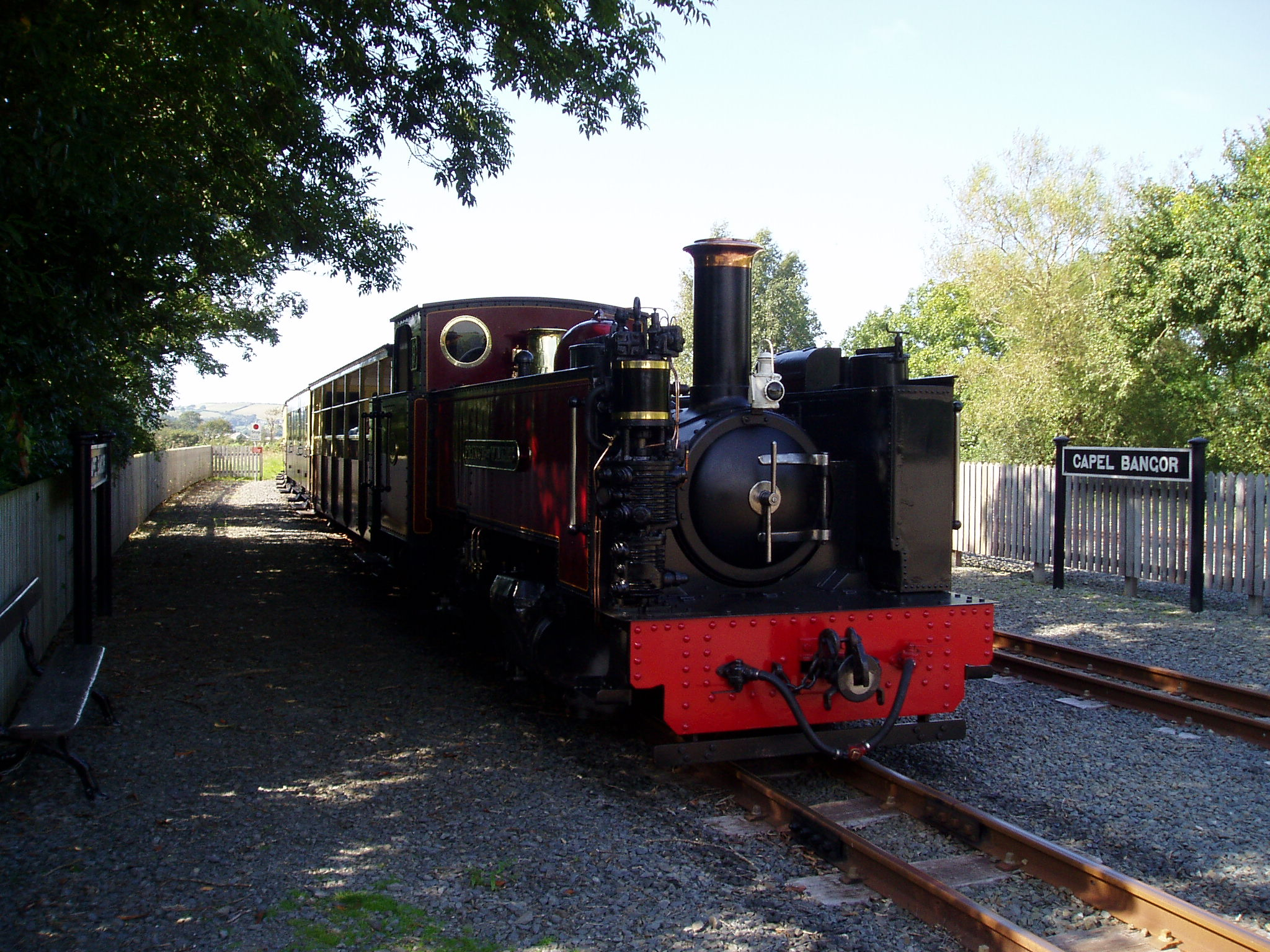 An afternoon train arriving in Capel Bangor's station on the way to Pontarfynach (Devil's Bridge, Ceredigion).